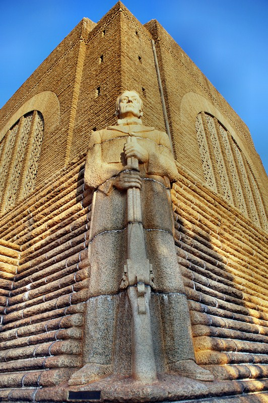 This site is named for the architecturally unique Art Deco Monument, of which the idea was first mooted by Pres. S.J.P. Kruger in 1888 and which was constructed between 1937 and 1949 with funds made available, inter alia by the then Smuts-government. This media shows a South African Protected Site with SAHRA file reference 9/2/258/0097.